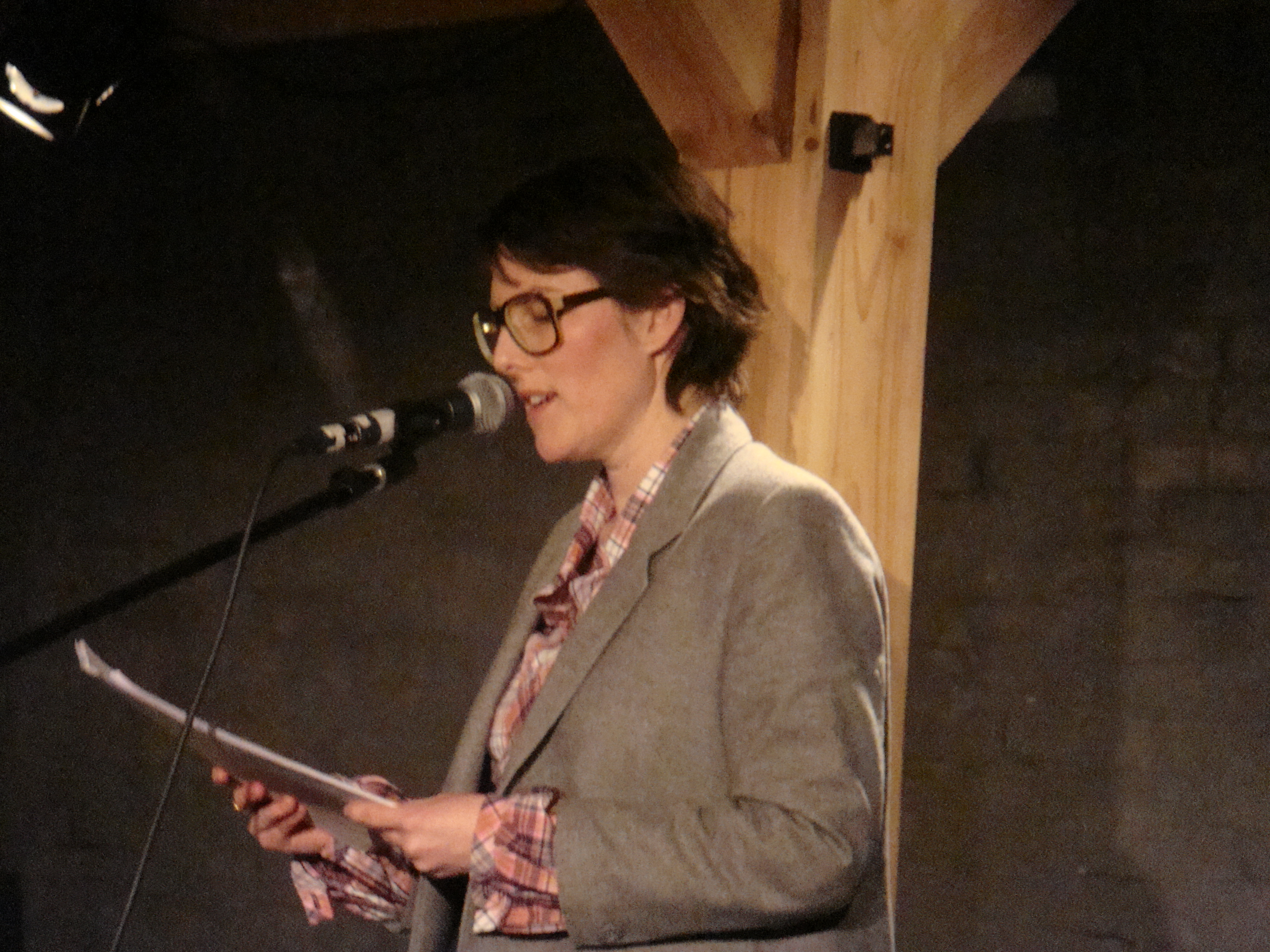 Danish author Adda Djørup